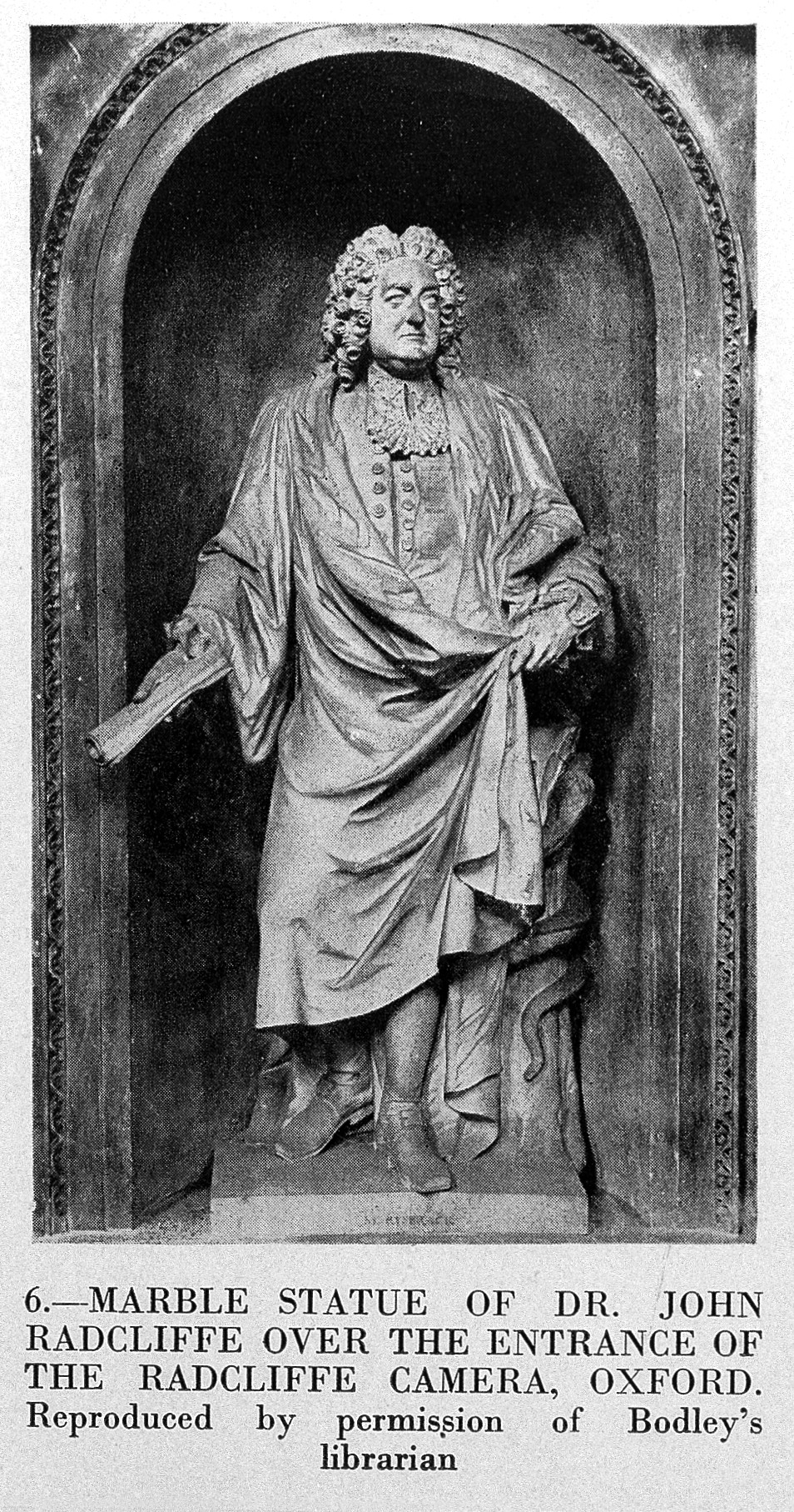 Marble statue of Dr. John Radcliffe over the entrance of the Radcliffe Camera, Oxford. Wellcome Images Keywords: John Radcliffe